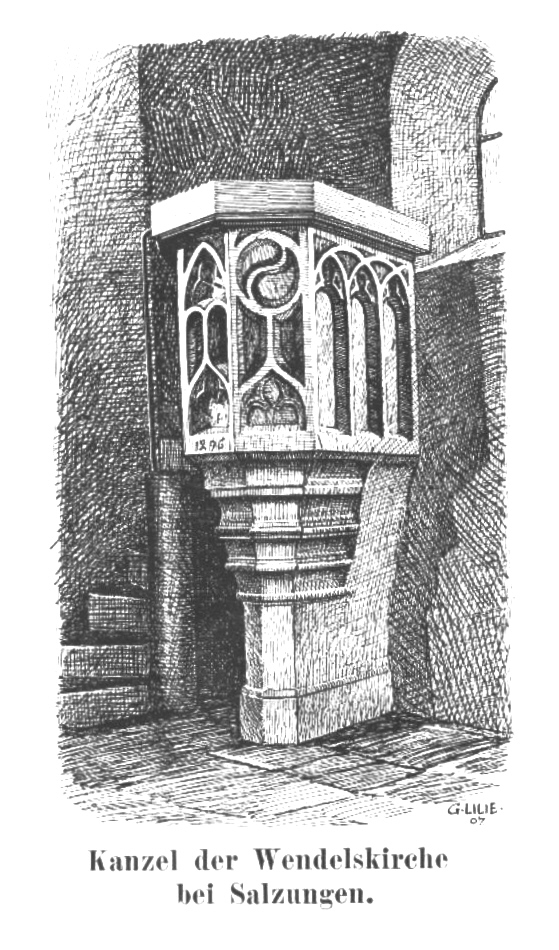 The pulpit in the church ST.Wendel in Bad Salzungen.